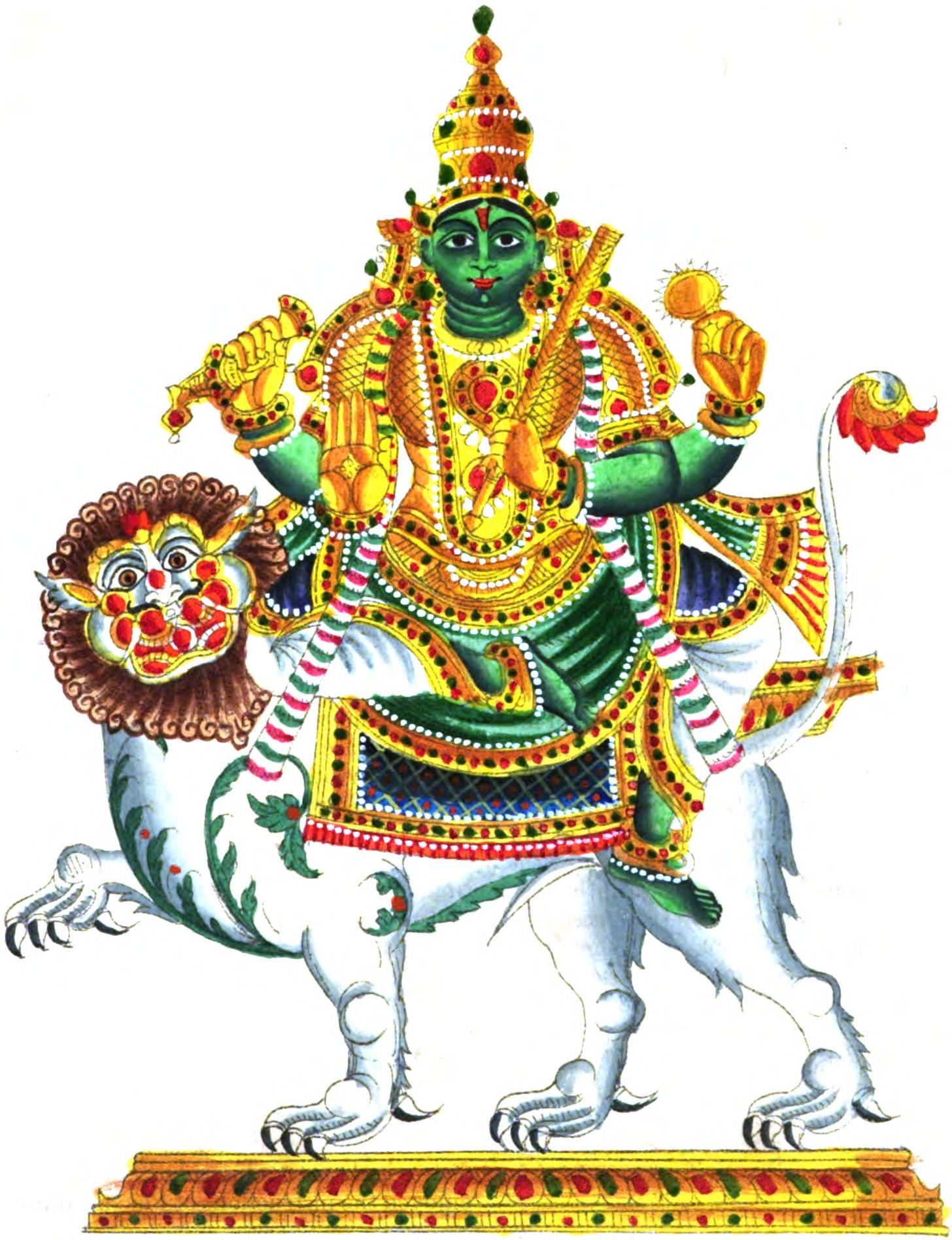 Budha